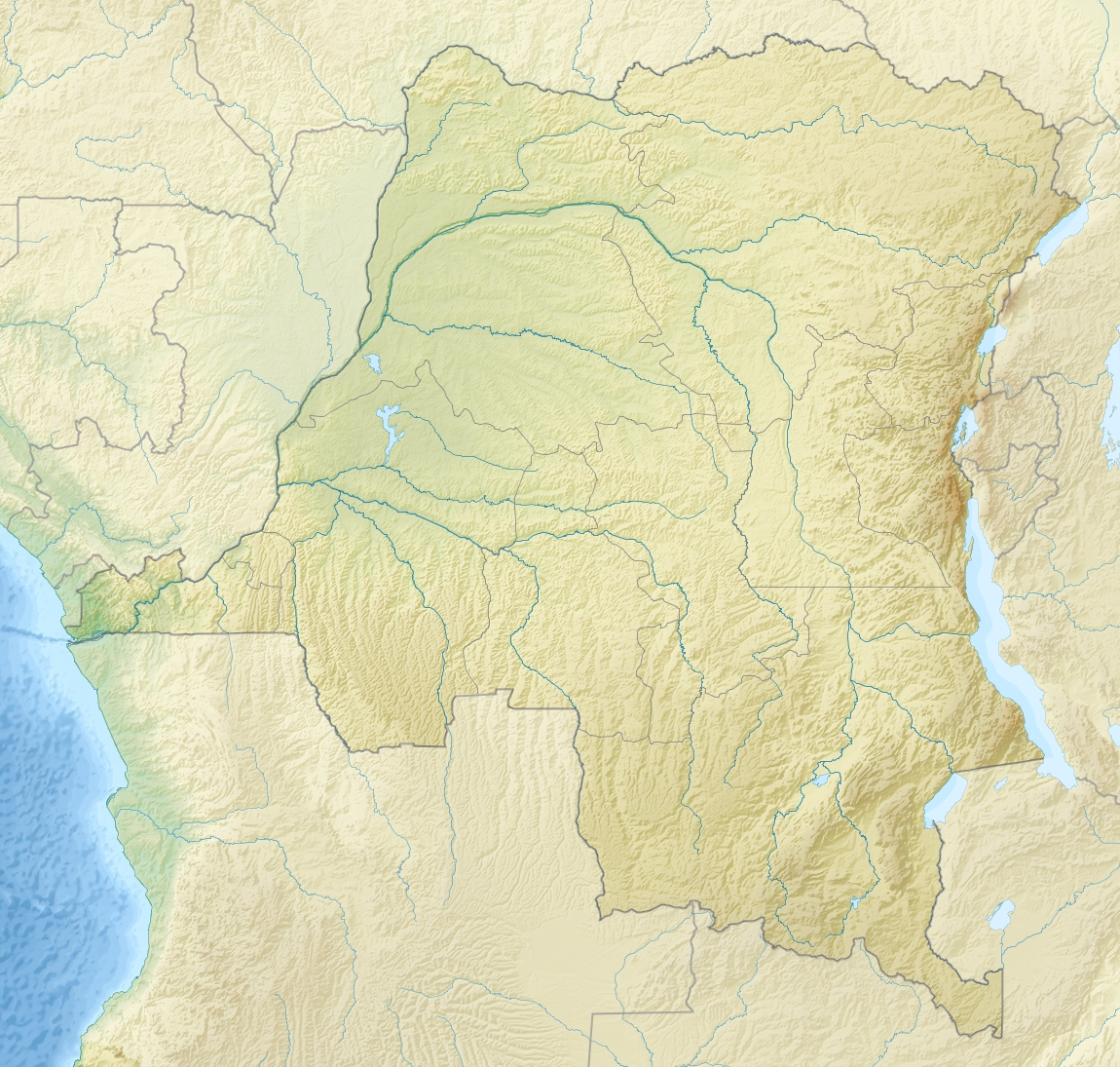 Relief location map of Democratic_Republic_of_the_Congo. Projection: Equirectangular projection, stretched by 100.0%. Geographic limits of the map: N: 6.0° N S: -14.0° N W: 11.0° E E: 32.0° E GMT projection: -JX19.473333333333333cd/18.546031746031744cd GMT region: -R11.0/-14.0/32.0/6.0r GMT region for grdcut: -R11.0/-14.0/32.0/6.0r Relief: SRTM30plus. Made with Natural Earth. Free vector and raster map data @ .